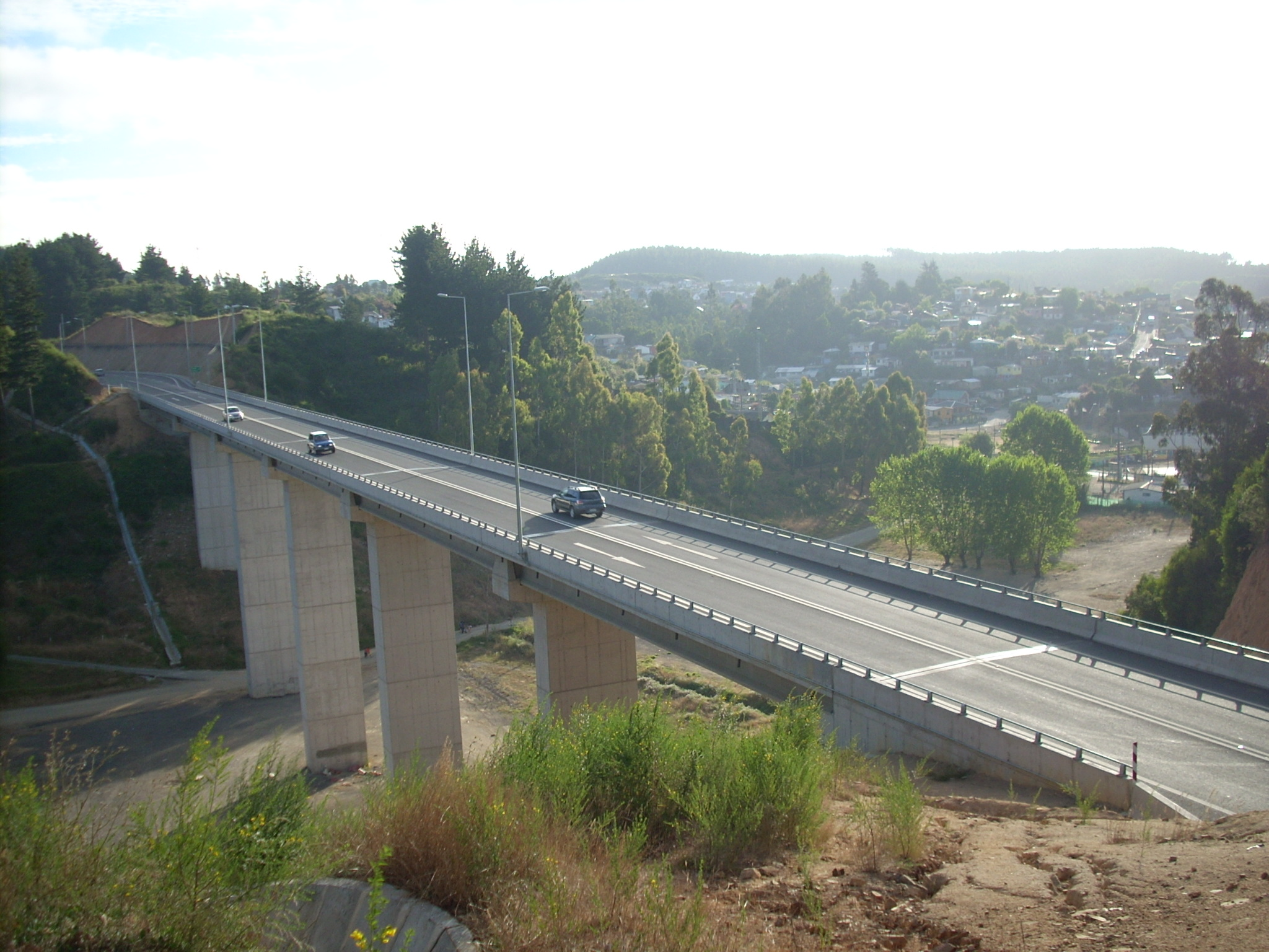 The "Puerto de Lirquen" is the highest bridge in the VIII Biobío Region of Chile with a height of 30 meters and a length of 190 meters. The bridge forms part of the Penco Bypass.